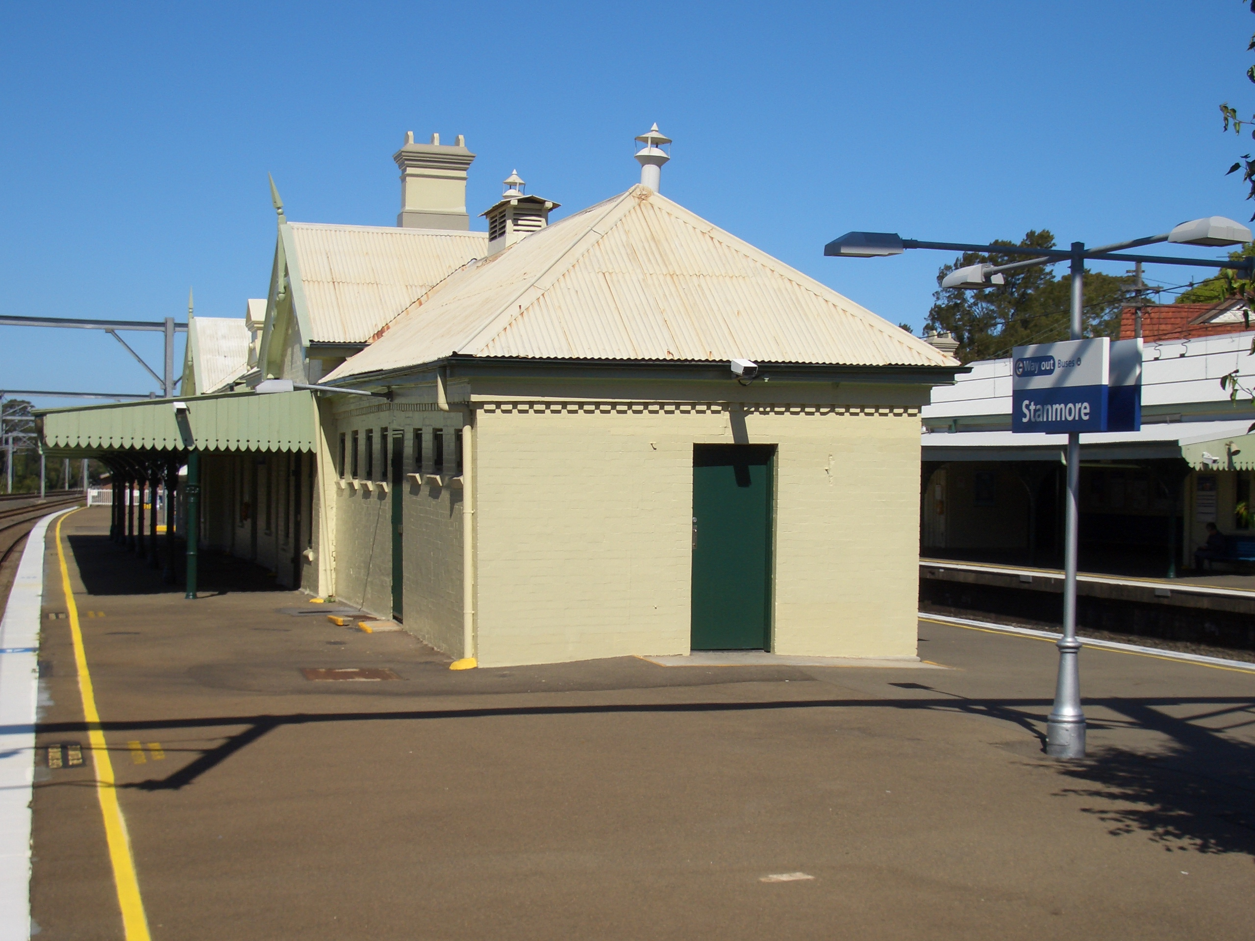 Stanmore Railway Station